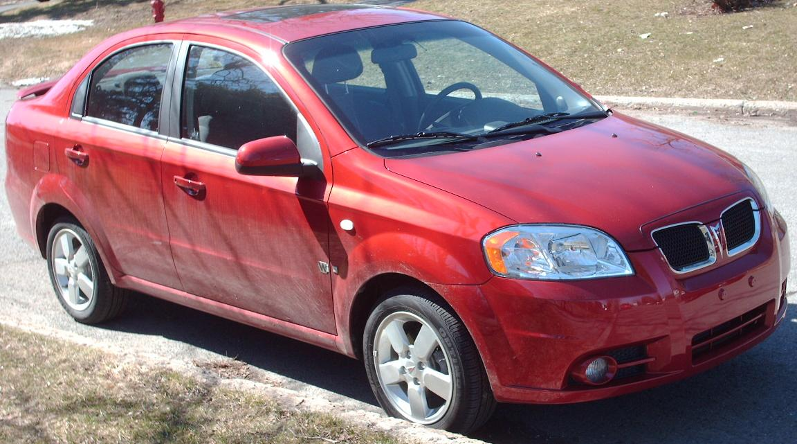 2007 Pontiac Wave photographed in Montreal, Quebec, Canada.